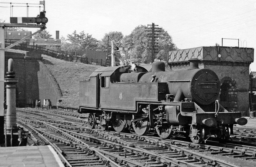 Locomotive at Hibel Road Station, Macclesfield. View northward, towards Stockport and Manchester. Hibel Road station was jointly owned by the London & North Western and North Stafford Railways, on the main line from Colwich and Stafford via Stoke-on-Trent to Manchester, which was North Stafford from Colwich and Norton Bridge through Stoke as far as Macclesfield. Hibel Road station was closed on 7/11/60, after which nearby Macclesfield Central took over after rebuilding. LMS Fowler (side-window variant) 4P 2-6-4T No. 42421 is on the line into the small Locomotive Depot out of view to the right.